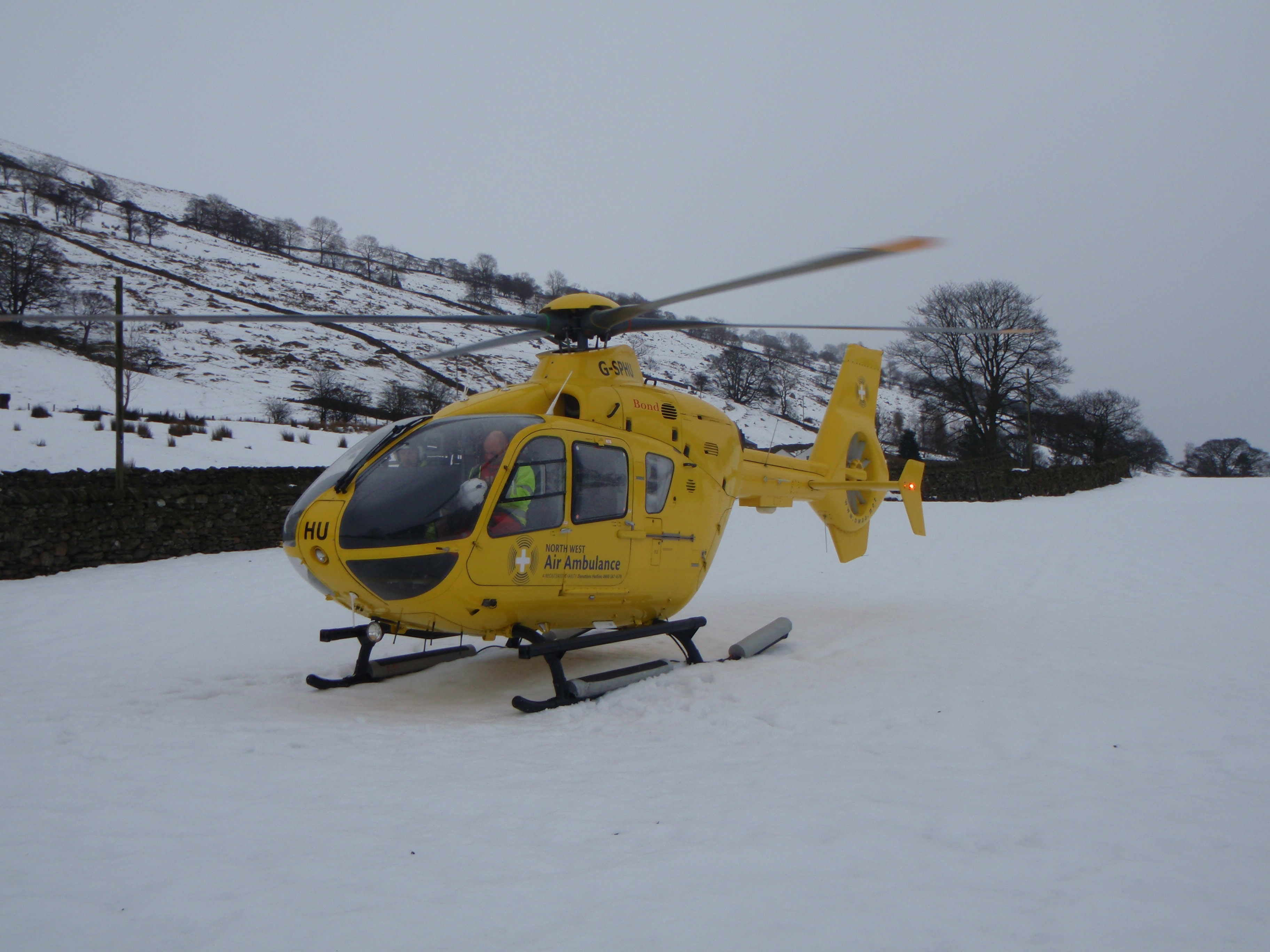 HM72 pictured in Longsleddale